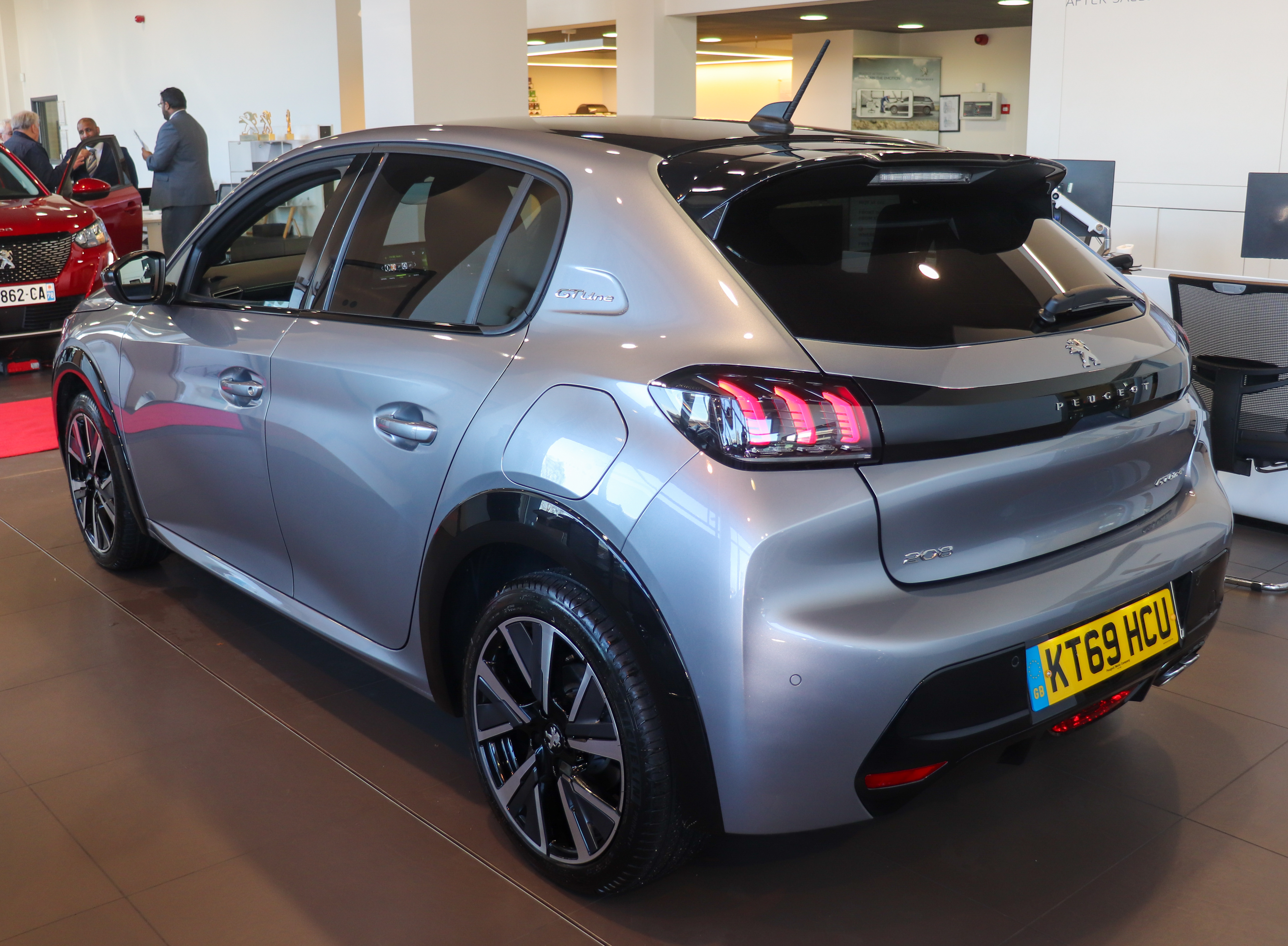 2019 Peugeot 208 GT Line PureTech Automatic 1.2 Rear Taken in Leamington Spa